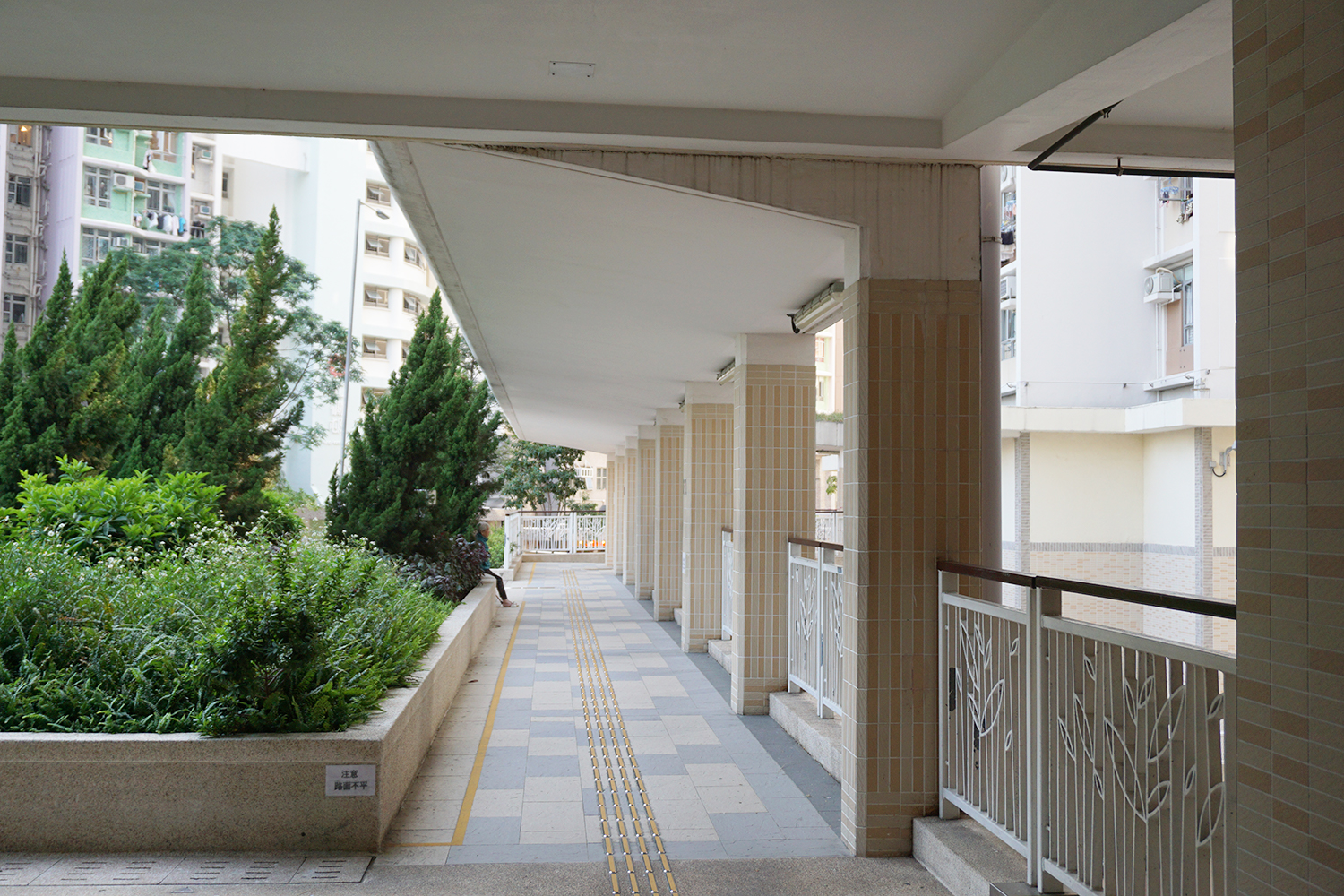 Hung Hom Estate in Whampoa, Hong Kong.